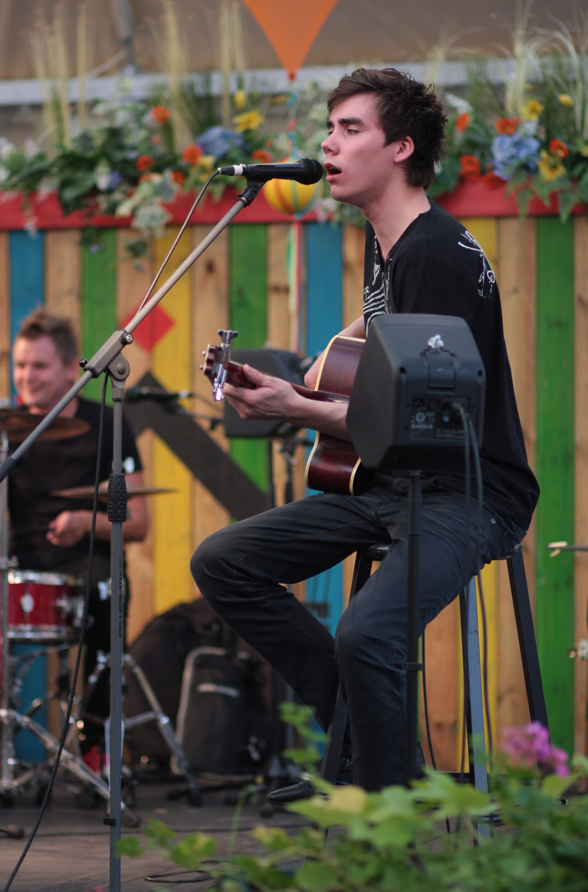 Kārlis Alviķis, guitarist and vocalist form Dzelzs Vilks